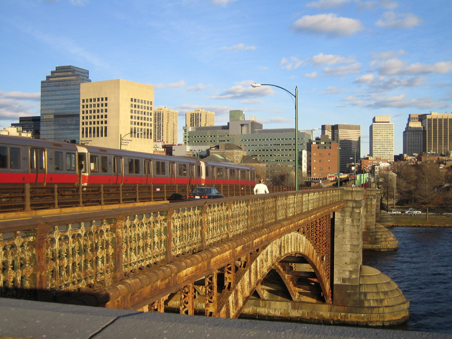 An inbound MBTA Red Line train crossing the Longfellow bridge